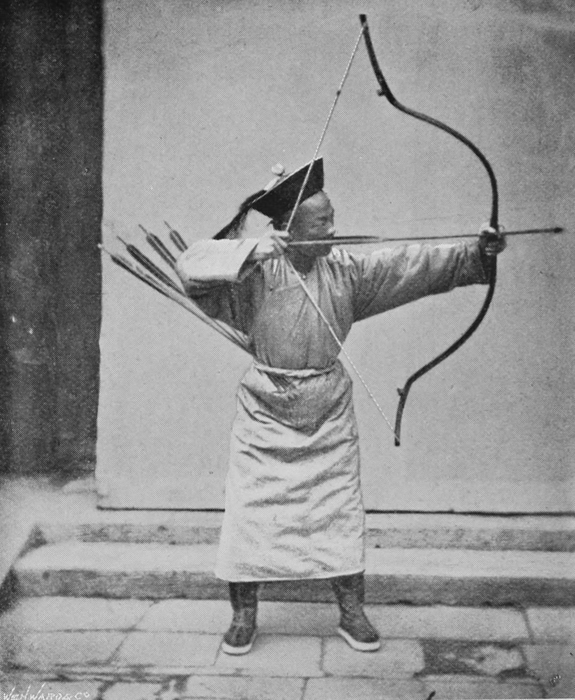 photo from Through China with a camera